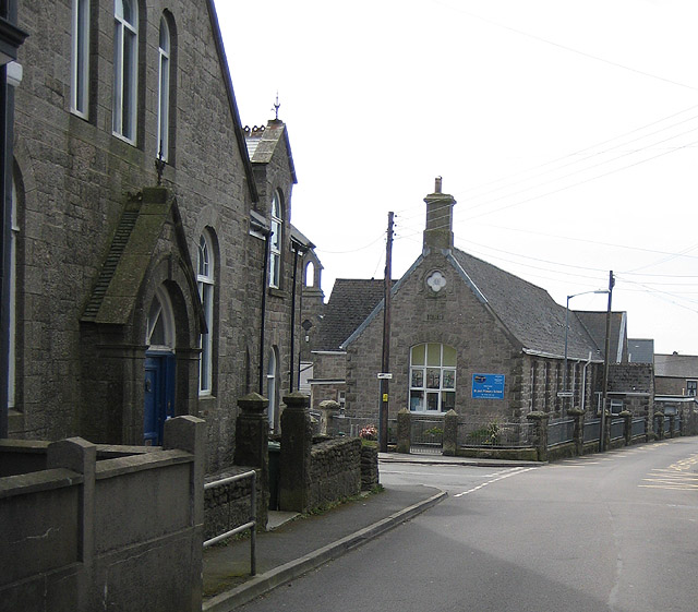 St Just Primary School Cape Cornwall Road.